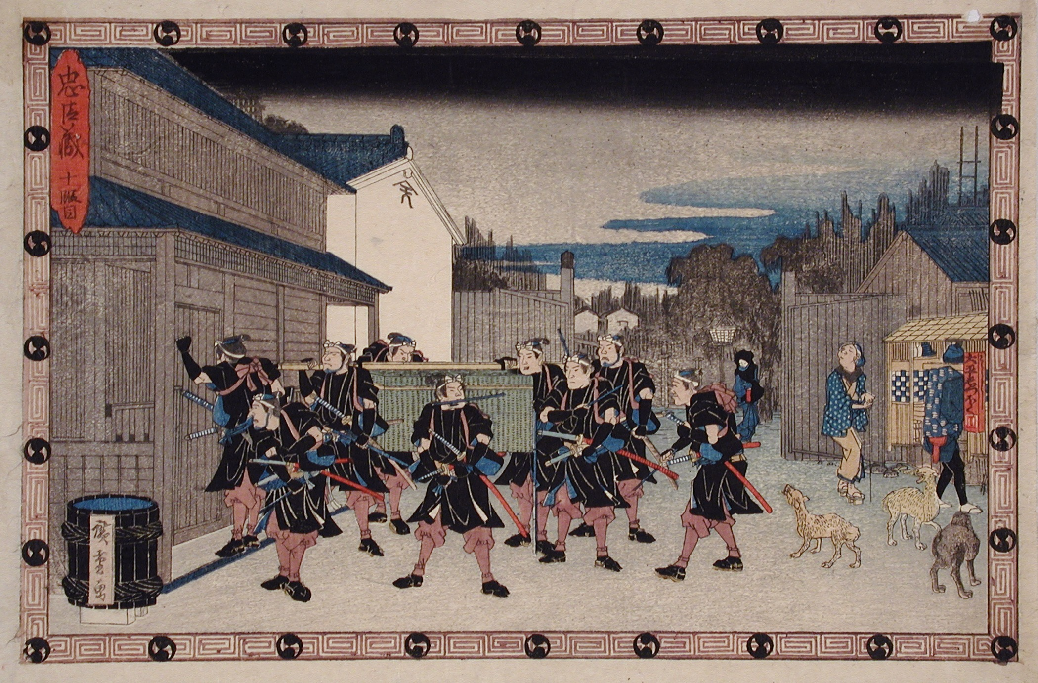 Japan, circa 1835-1839 Series: The Storehouse of Loyal Retainers Prints; woodcuts Color woodblock print Image: 9 x 13 15/16 in. (22.9 x 35.4 cm); Sheet: 10 1/16 x 14 13/16 in. (25.6 x 37.6 cm) Gift of Dr. Harvey Eagleson (M.66.35.55) Japanese Art